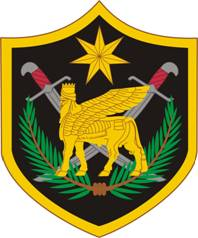 Description/Blazon On a black shield with a 1/8 inch (.32 cm) gold border 2 ½ inches (6.35 cm) in width and 3 inches (7.62 cm) in height overall two crossed silver scimitars points down with scarlet grips, superimposed in base by a wreath of palm in proper colors joined at the bottom with three loops of brown twine, overall a gold human-head winged bull of Mesopotamia, all below a gold seven pointed star. Symbolism The star represents a vision of unity for the seven peoples of Iraq (Sunni, Shia, Kurd, Turkoman, Assyrian, Yazidi, Armenian) leading to a more secure, prosperous and free future for Iraqis. The crossed scimitars of the insignia recall the partnership between Multinational Forces and Iraqi Security Forces essential to bringing a democratic way of life to Iraq. The palm fronds symbolize peace and prosperity for a new nation. The colossal statue of the Mesopotamian human-headed winged bull recalls the rich heritage of Iraq and underscores strength and protection for the people of Iraq. Background The shoulder sleeve insignia was approved on 7 January 2005. The insignia was amended to change the symbolism on 24 February 2005. (TIOH Drawing Number A-1-869)